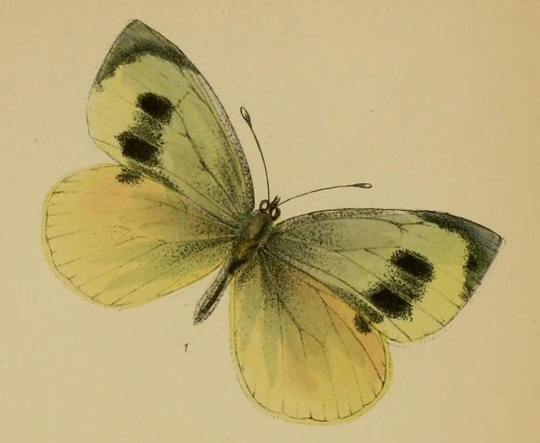 The extinct butterfly Madeiran Large White (Pieris brassicae wollastoni) (fig 1) from plate 1 in the book "The butterflies and moths of Teneriffe" by A. E. Holt White and Rashleigh Holt White.